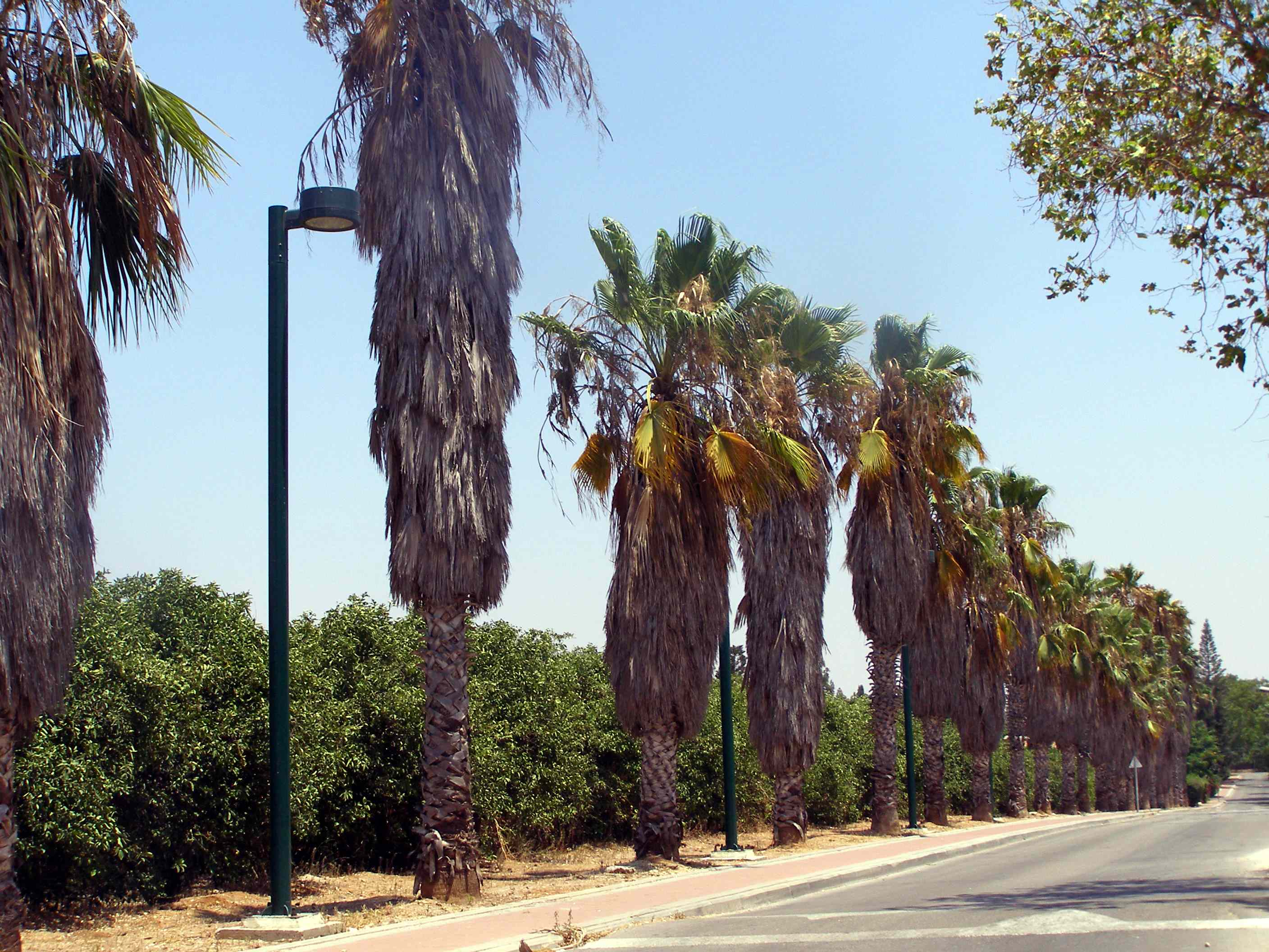 Settlement of Nir Zvi, near Lod